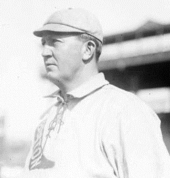 Baseball player "Old" Cy Young, Boston, standing on the field at South Side Park（1908）